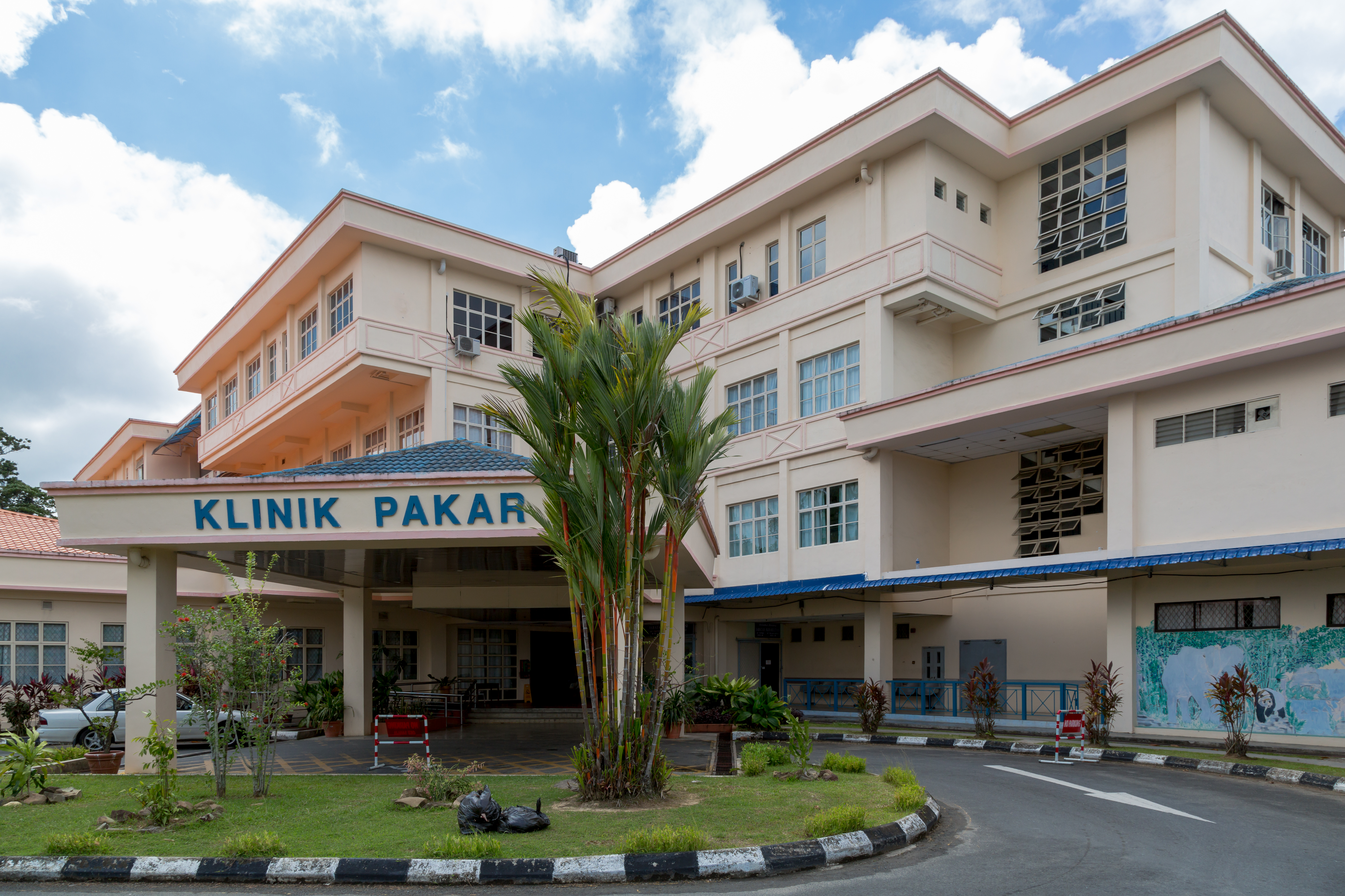 Sandakan, Sabah, Malaysia: Klinik Pakar at Hospital Duchess of Kent, Sandakan